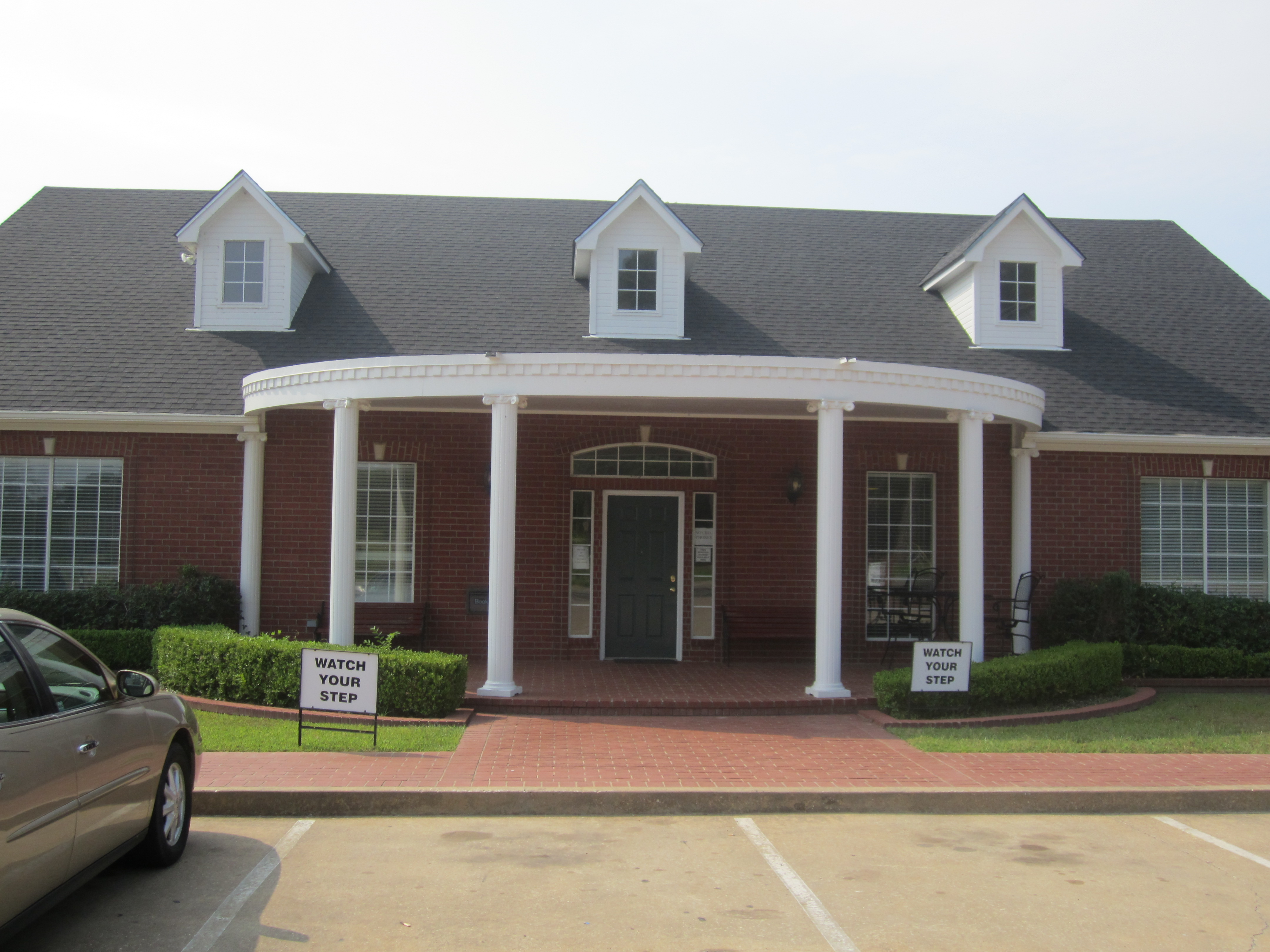 I took photo with Canon camera in Chandler, TX.